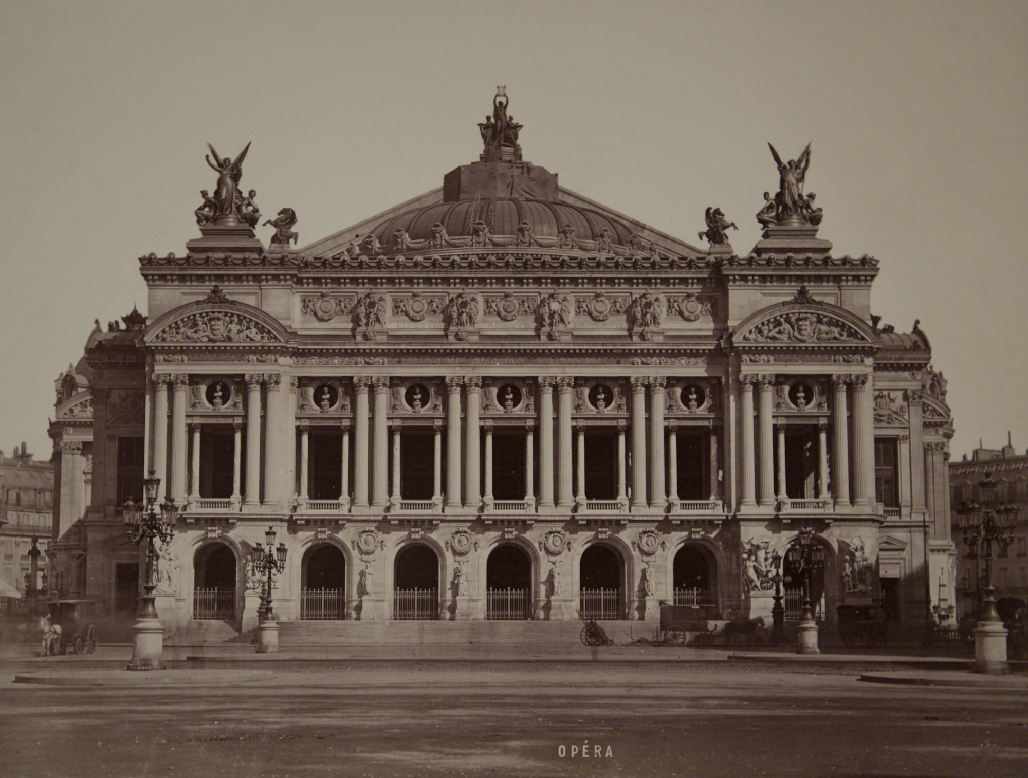 Title: Le Nouvel Opera Artist: Achille Quinet Artist Bio: French, 1931 - 1900 Creation Date: c. 1870 Process: albumen print Credit Line: Gift of James Garfinkel Accession Number: 1989.039.039